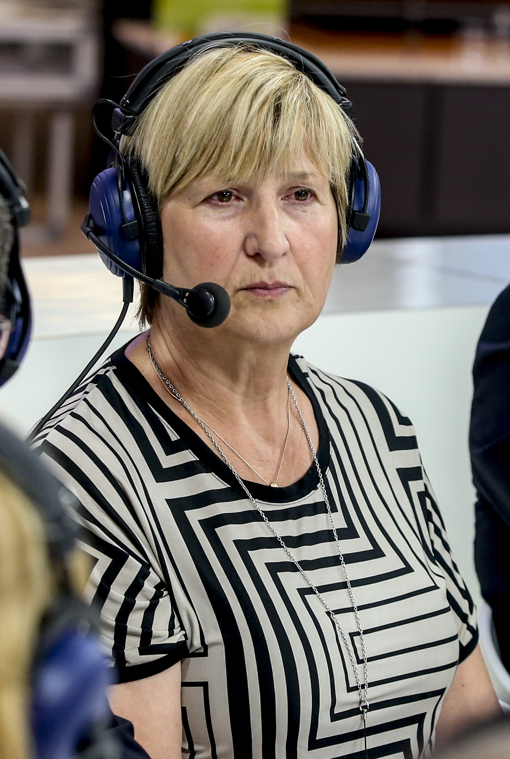 The quick and the dead. Europe’s migration crisis – the Euranet Plus radio network, in partnership with HRT Radio (Croatia), hosted a live debate from the European Parliament discussing migrations policy. What can the European Union really do? Euranet Plus and HRT Croatia debated the crisis in a bilingual debate moderated by journalist Barbara Peranić of HRT Radio (in Croatian) and Brian Maguire of the Euranet Plus News Agency in Brussels (in English). The debate also featured students of the Euranet Plus campus radio network from Croatia (Radio Student) and Spain (Universidade de Vigo). Get all the details about the guests, photos and video recording at